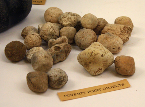 Poverty Point Objects (PPO), baked loess used in cooking, dating from 1650 and 700 BCE, on display at the Pinson Mounds State Archaeological Park Museum, Tennessee